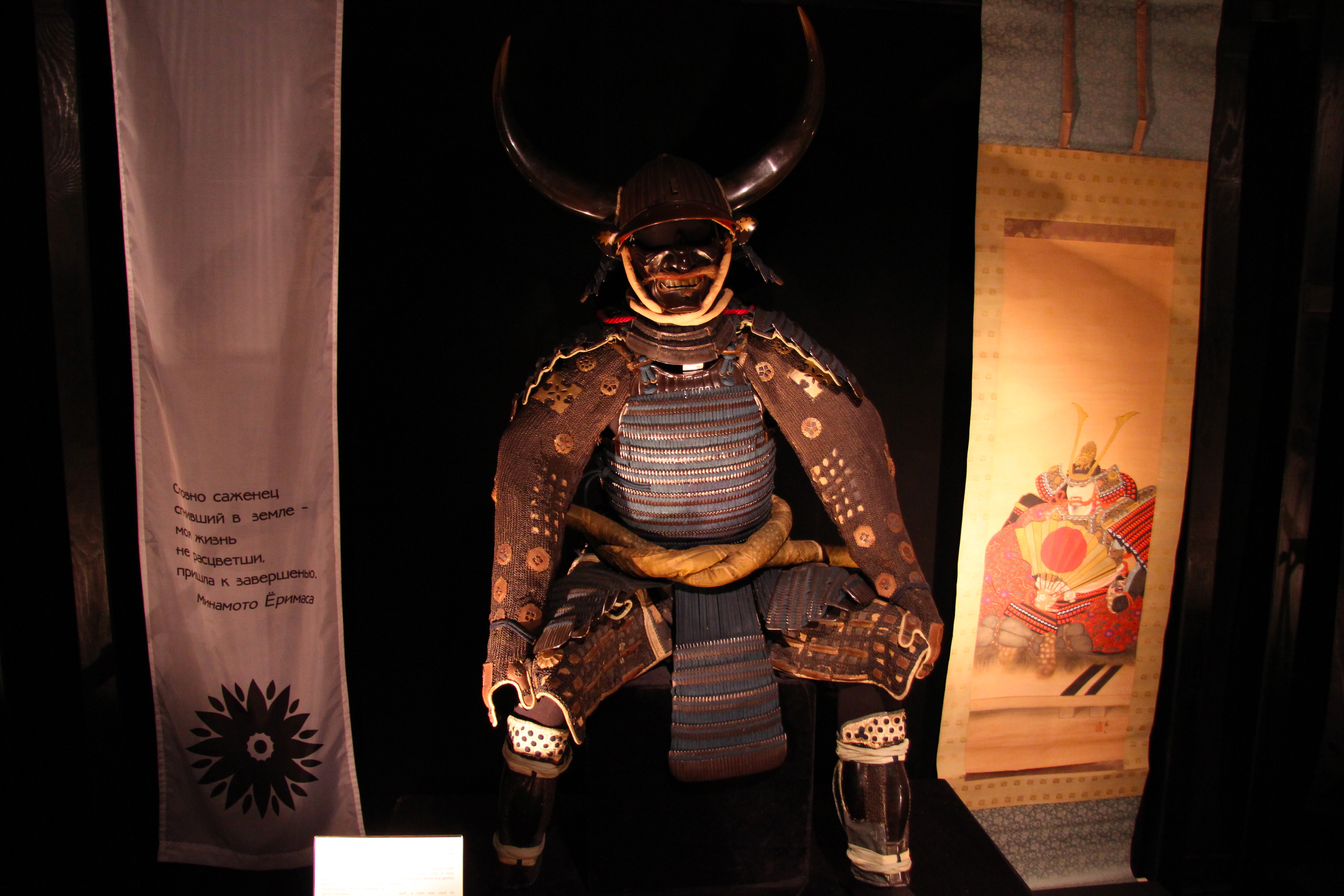 "Samurai: Art of War" exibition (Выставка "Самураи: Art of War")